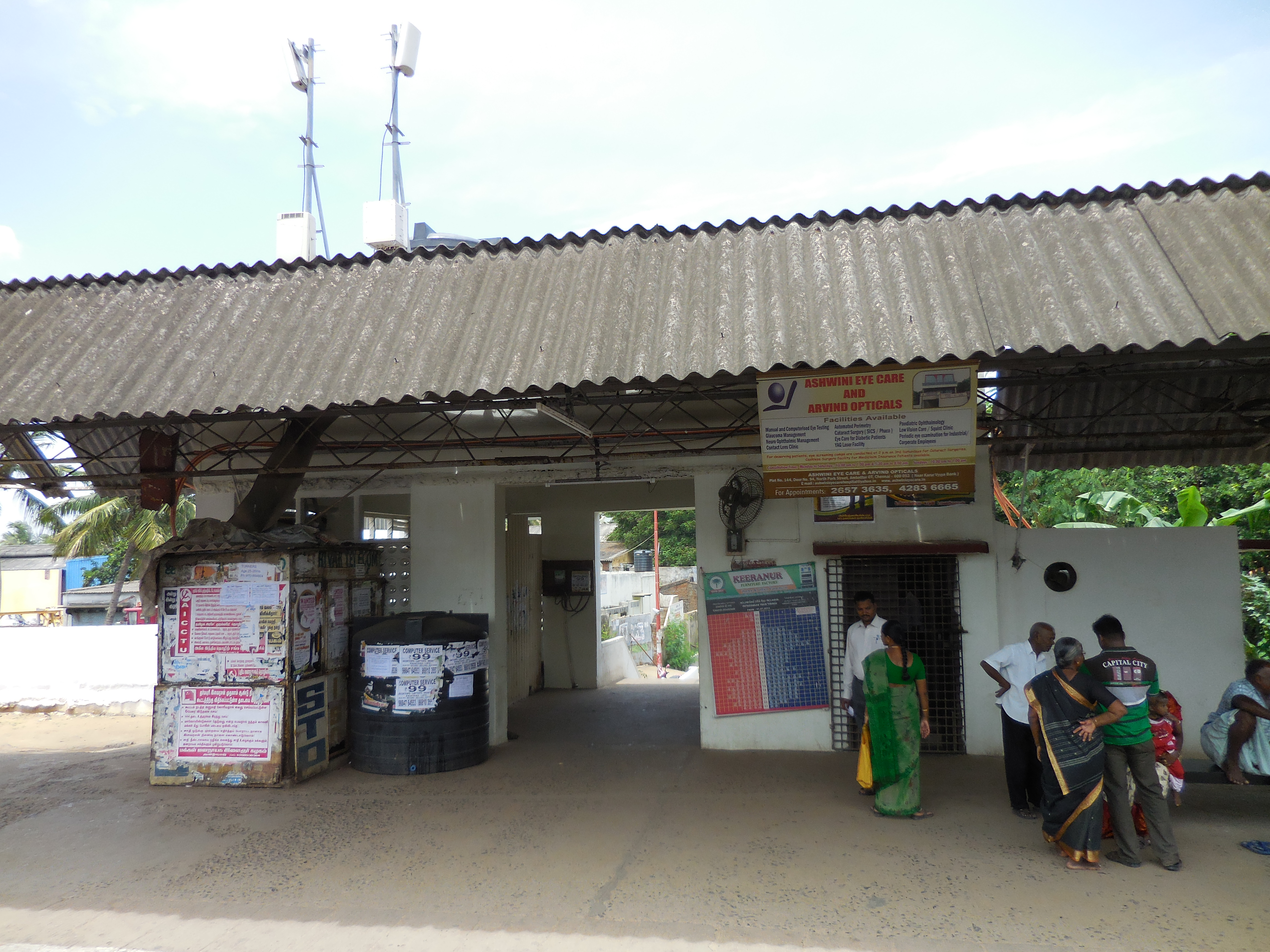 A view of the exit at the Pattaravakkam Station, Chennai, towards east, taken on 15 July 2014 at noon.